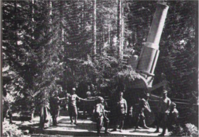 Austro-Hungarian 38 cm Howitzer M 16.